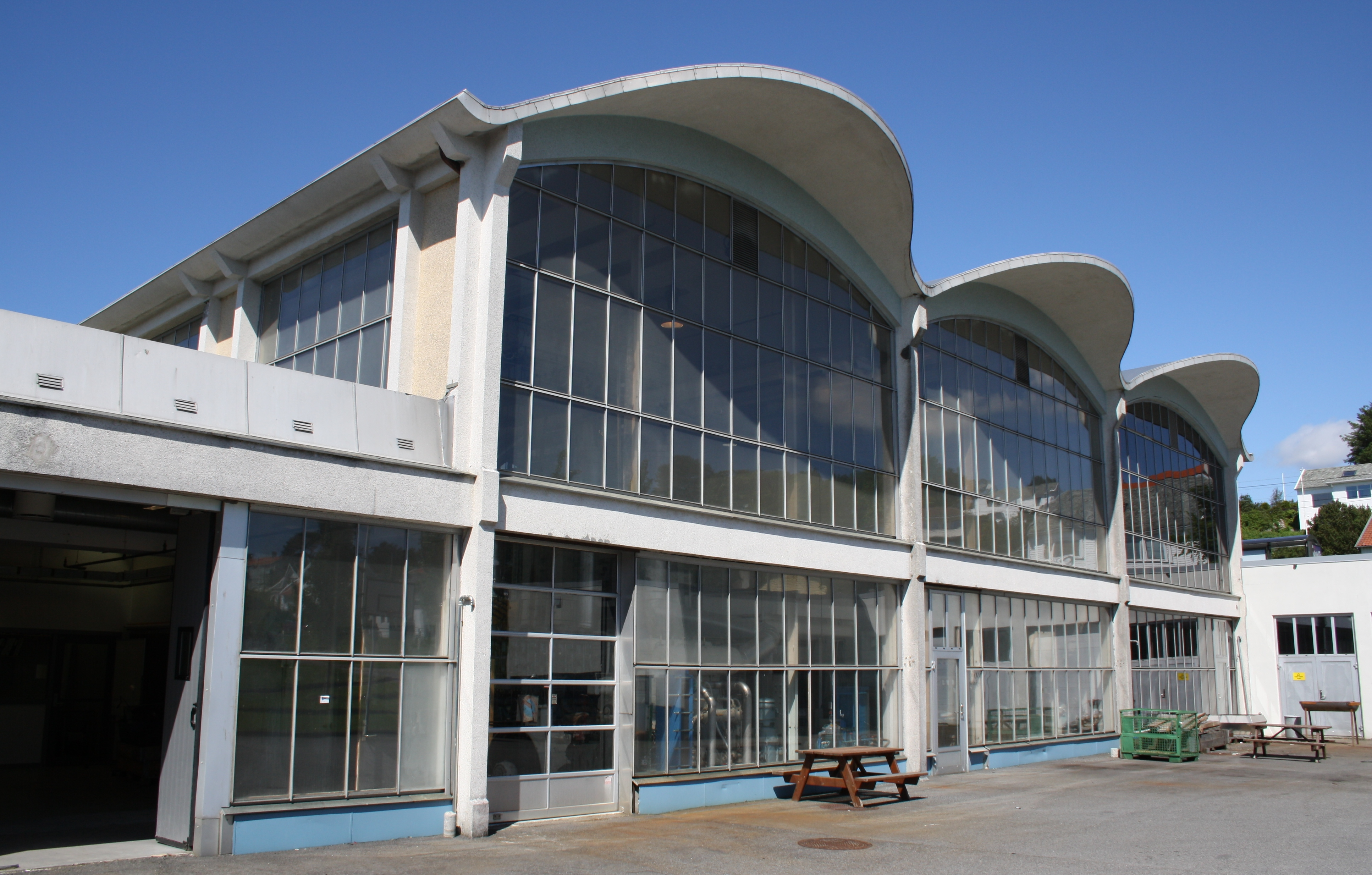 Maskinistskolen 1966